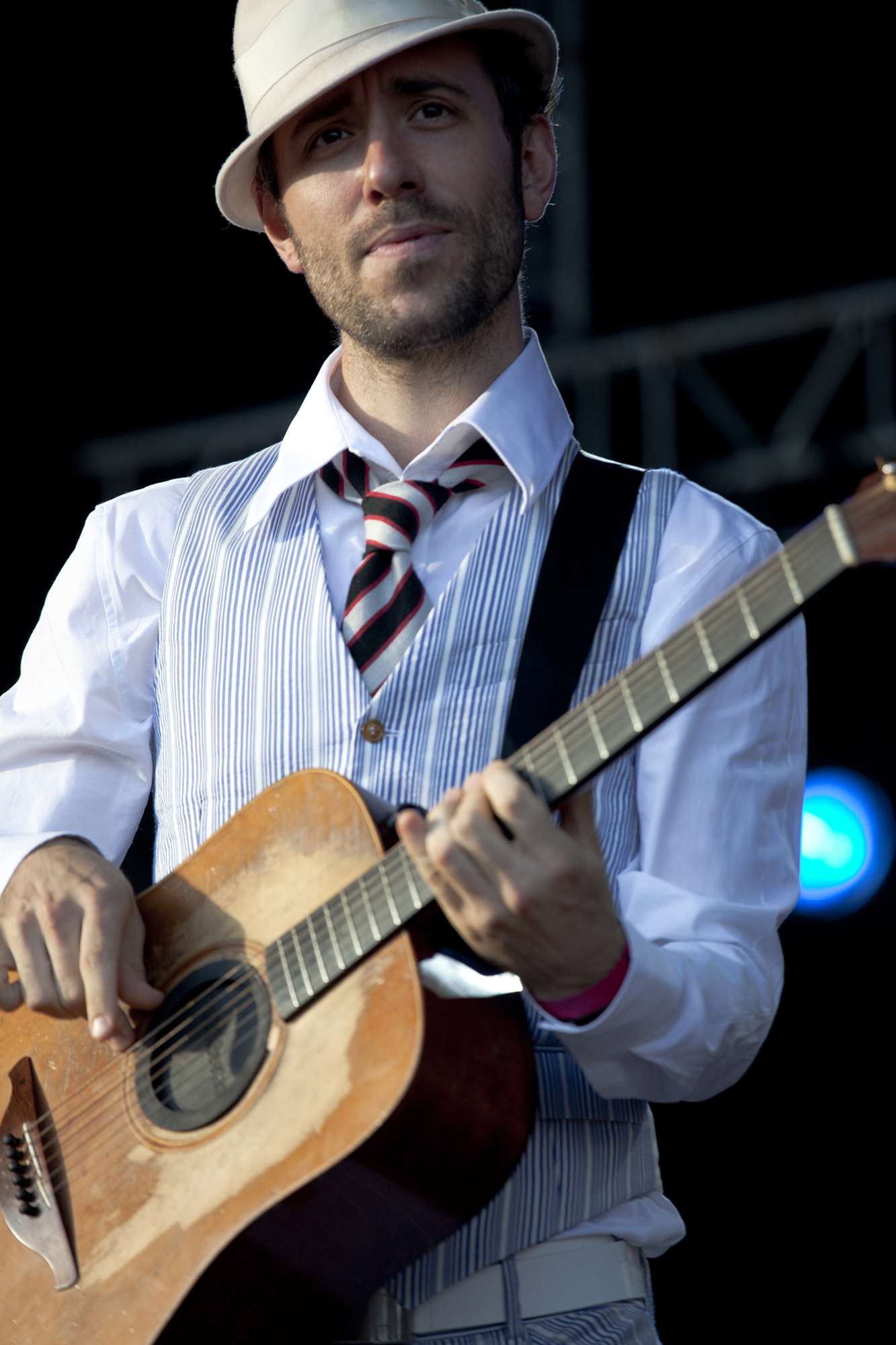 Charlie Winston - Cruïlla BCN 2010